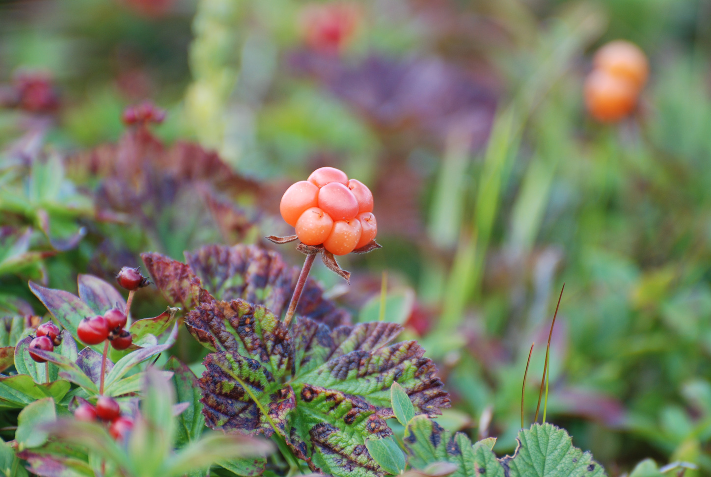 Wild cloudberries at Litløya, Nordland, Norway.